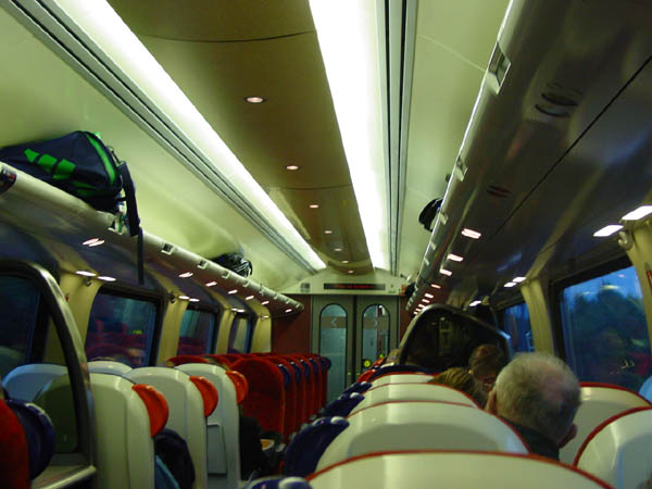 Interior of a Class 220 "Voyager" diesel multiple unit train, operated by Virgin Trains. Taken by Wikipedia member "RapidAssistant", October 2002.